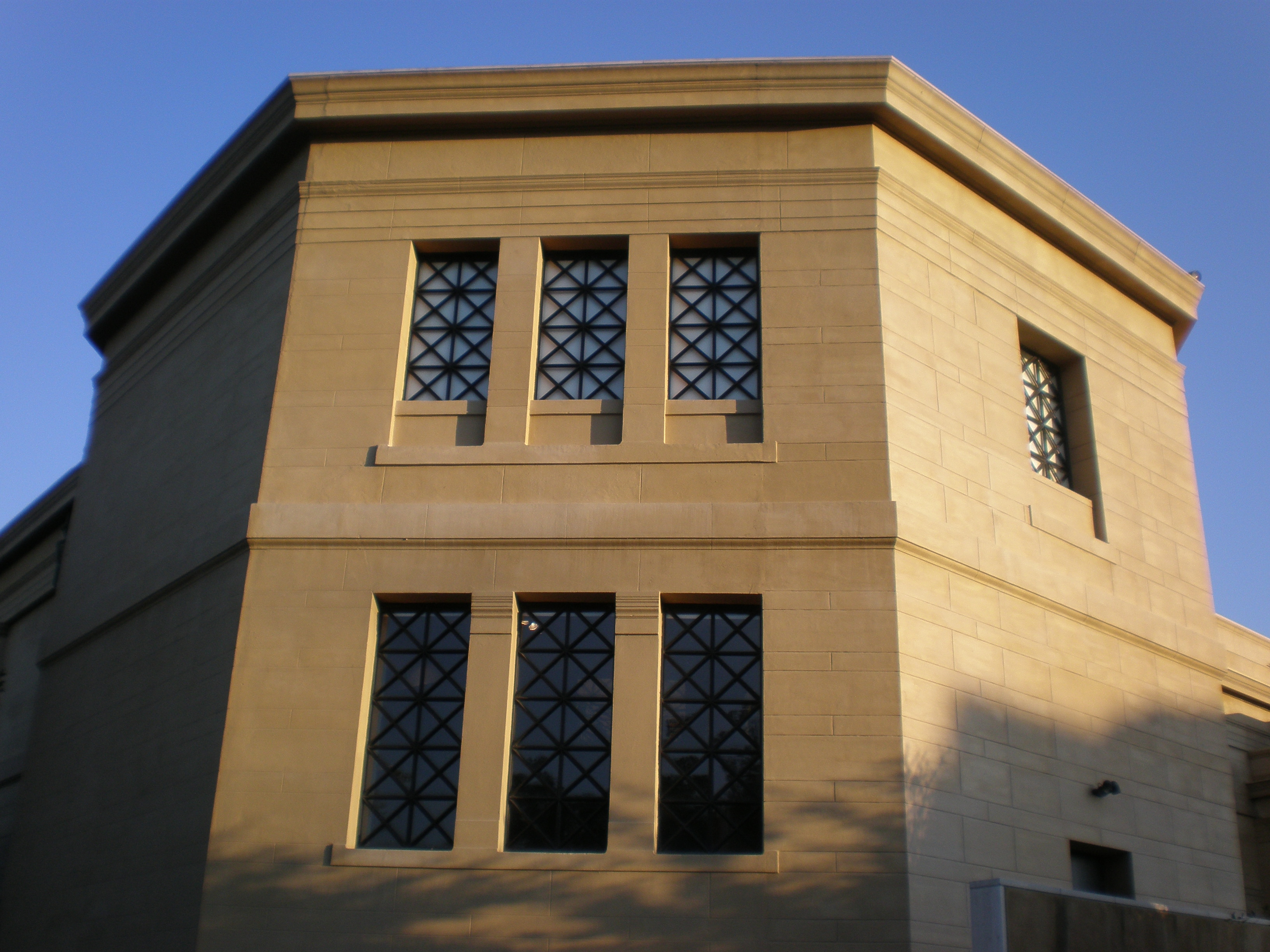 An exterior wing of the Iris & B. Gerald Cantor Center for Visual Arts on the Stanford University campus in Stanford, California. 1992.146